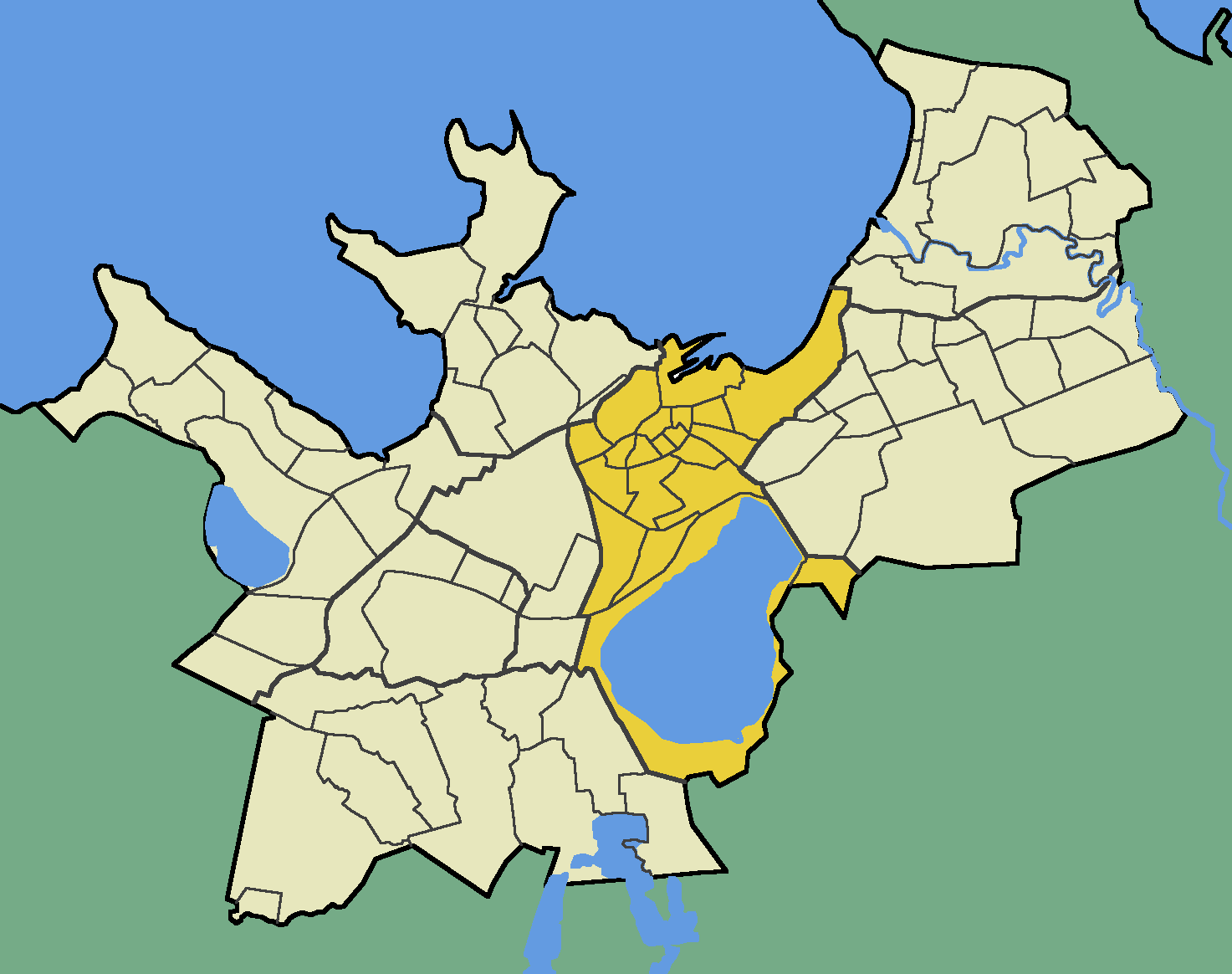 Map of Tallinn (Estonia) with borders of the quarters, Kesklinn district emphasised